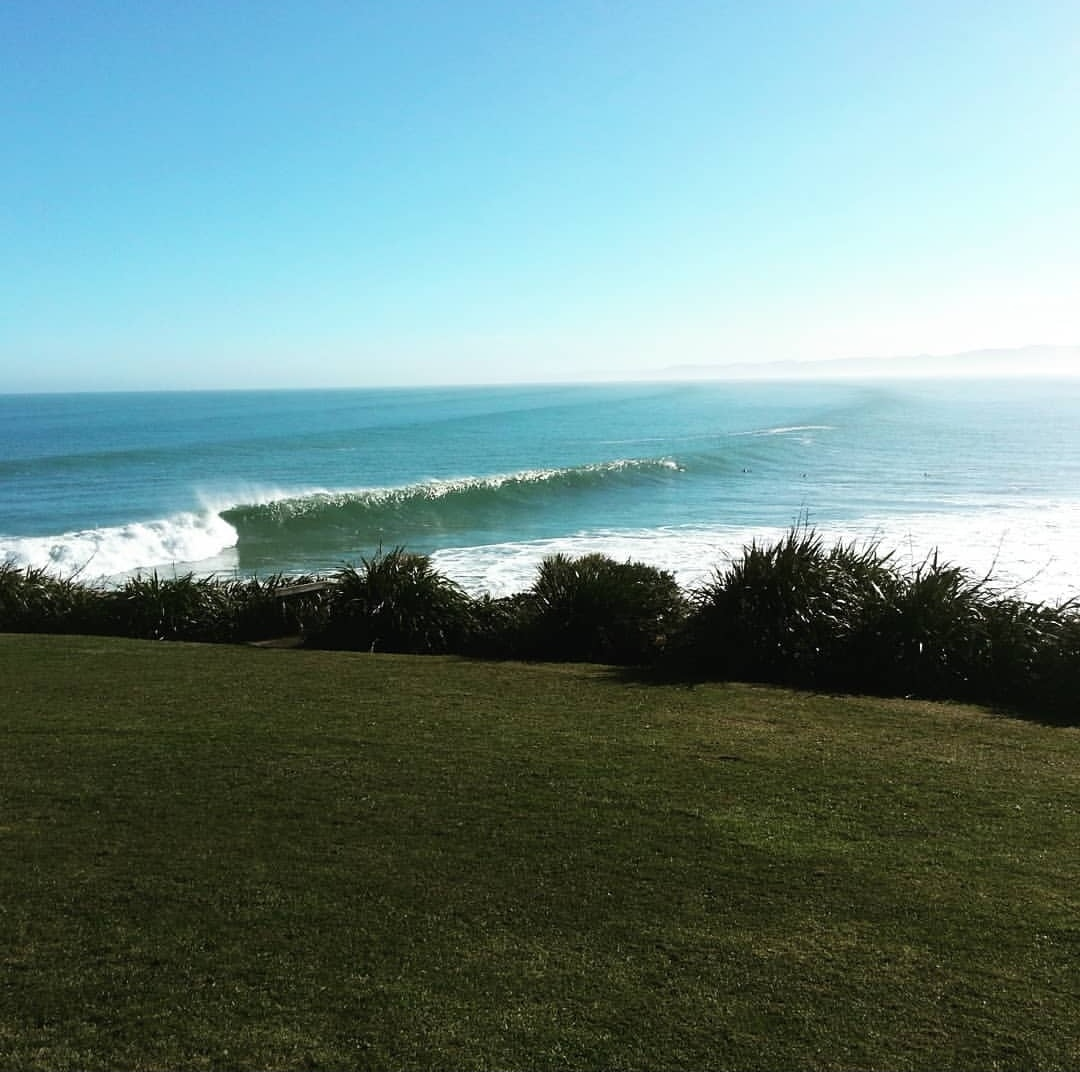 Pumping Surf at Manu Bay, Raglan